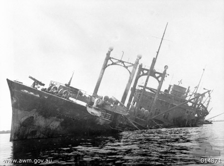 New Guinea. Gona. This wrecked Japanese ship "Ayatosan Maru"(綾戸山丸), sunk by allied aircraft during the battle of gona. It is now used for target practice by allied forces at gona beach. (Negative by N. Brown).